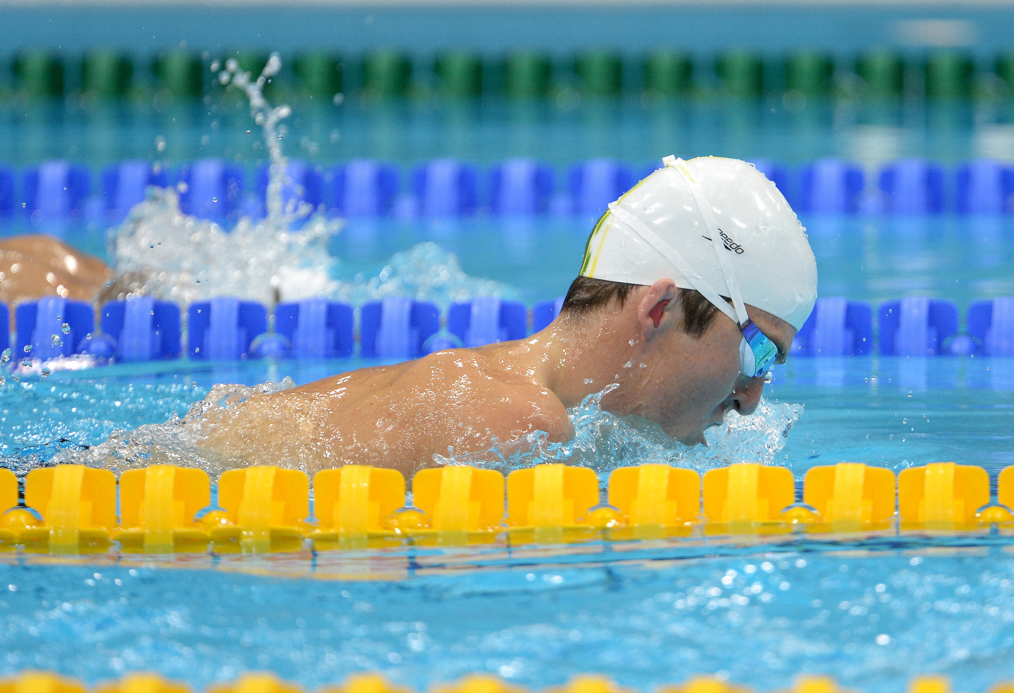 Photograph of Australian Paralympic team member Grant Patterson at the 2012 Summer Paralympics in London